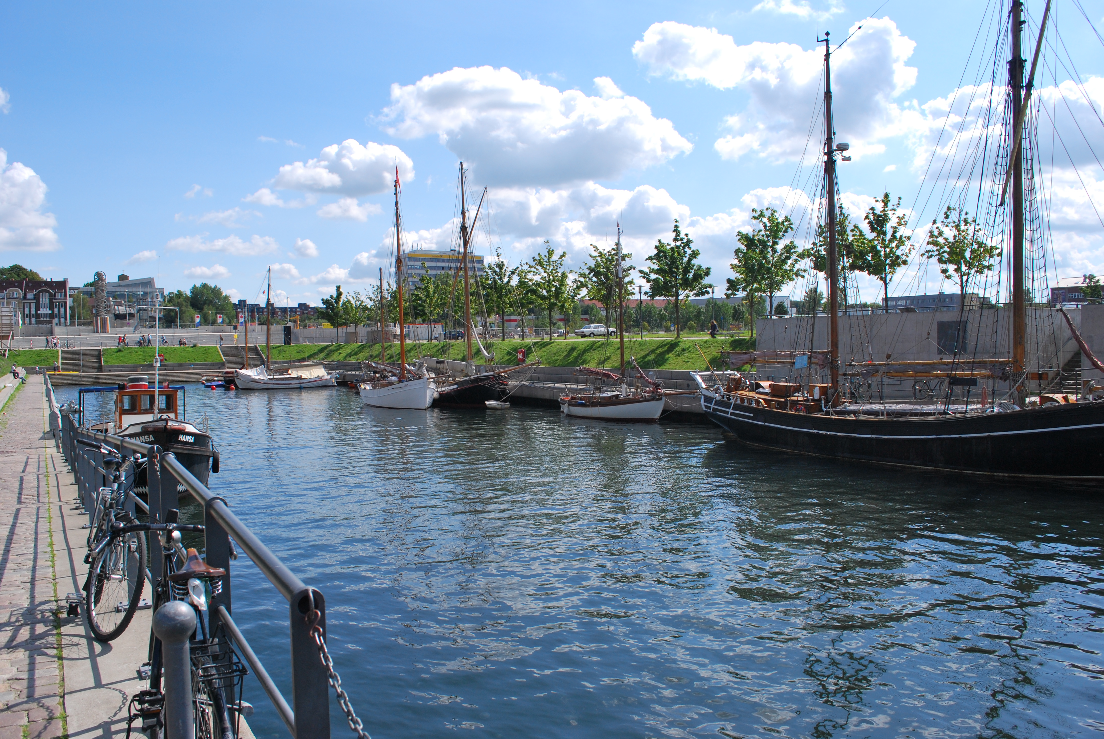 Germaniahafen, Kiel